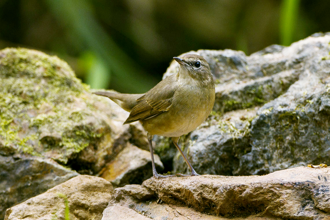 Siberian Rubythroat fem - Thailand_S4E9740